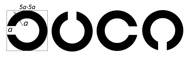 four Landolt C symbols